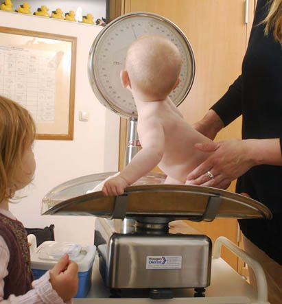 Examination by a pediatrician